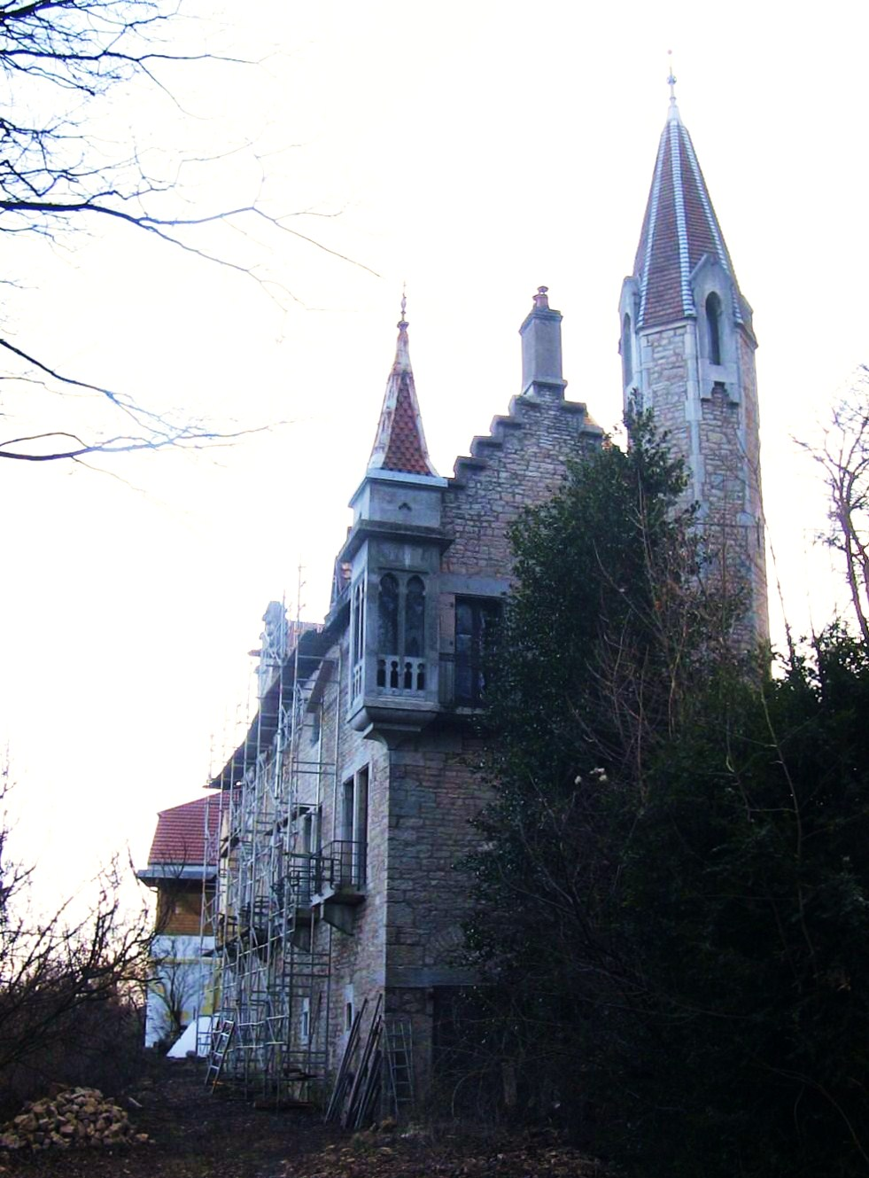 The "castel of the jewish" located in Besançon (Doubs, France).